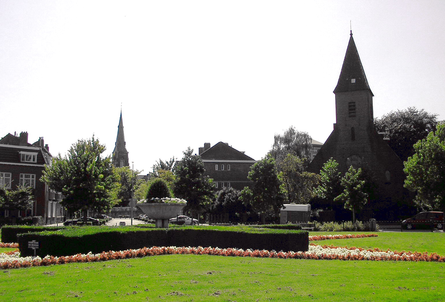 Sterreplein, Maastricht, the Netherlands